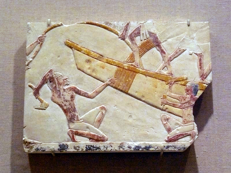 Boat-Building Scene, ca. 664-634 B.C.E. Limestone, painted, 7 5/8 x 10 5/8 in. (19.4 x 27 cm). Brooklyn Museum, Charles Edwin Wilbour Fund, 51.14.